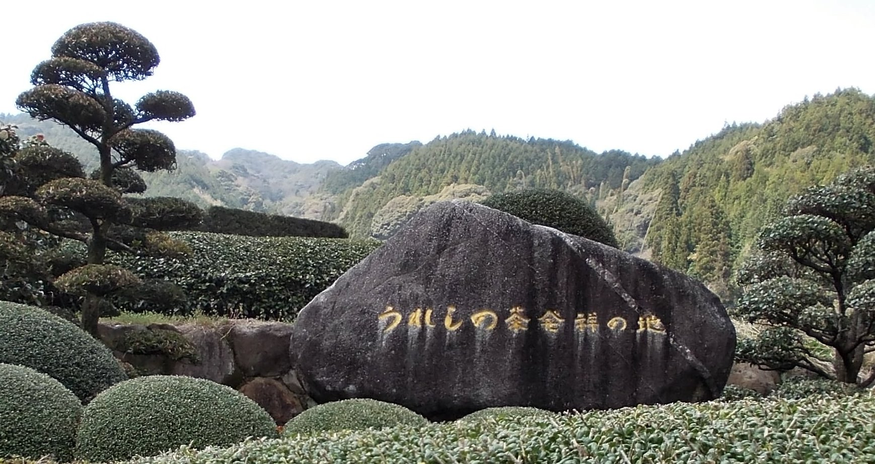 The Stone Monument commemorating the birth of Ureshino Tea at Mount Fudō, Ureshino, Saga, Japan